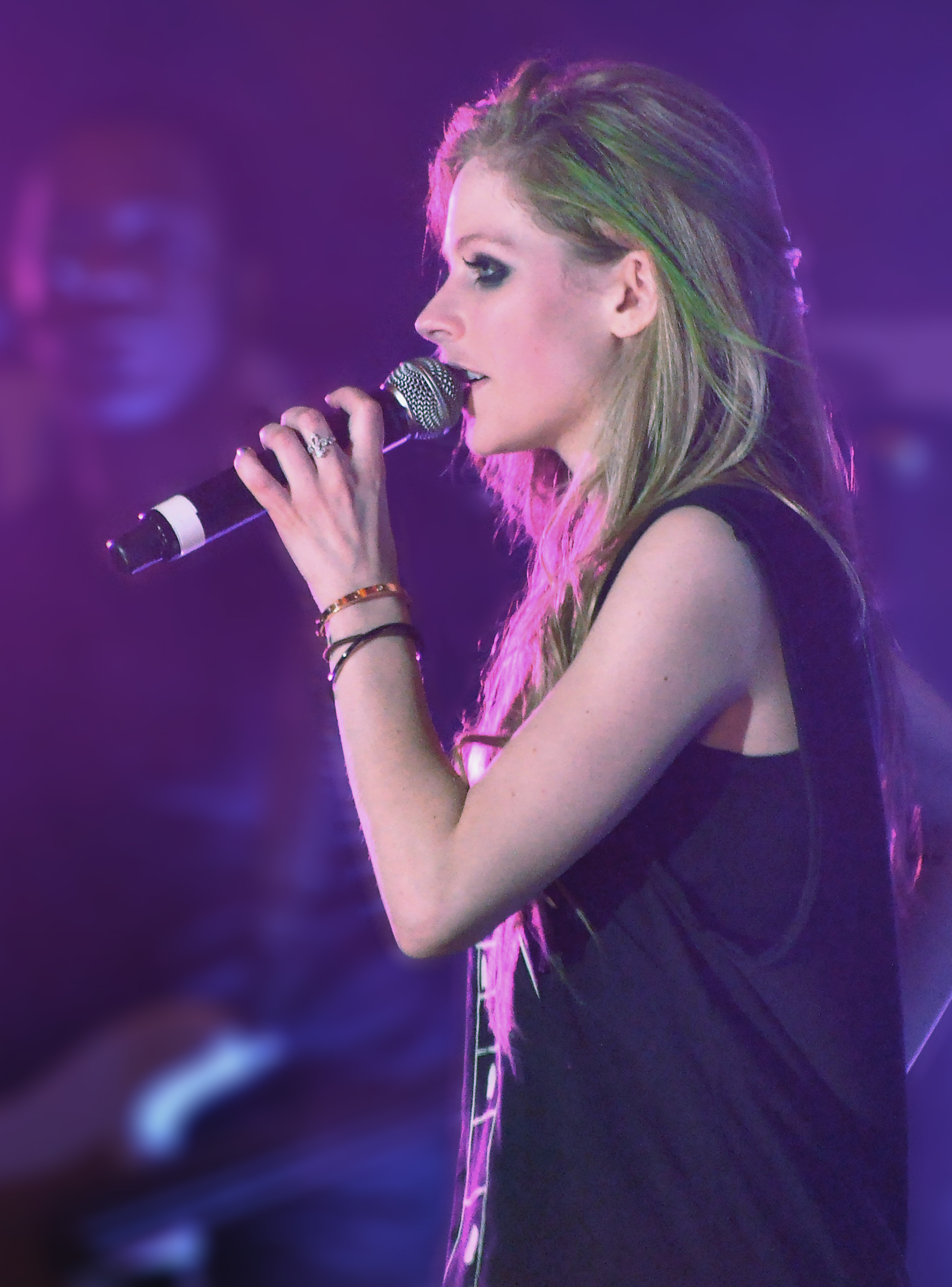 Profile shot of Avril Lavigne singing on stage during her Black Star Tour on May 28, 2011. The venue is the Tropicana Field stadium in St. Petersburg, Florida, during the Rays/Hess Express Saturday Concert Series. Photographed on a Nikon D90.